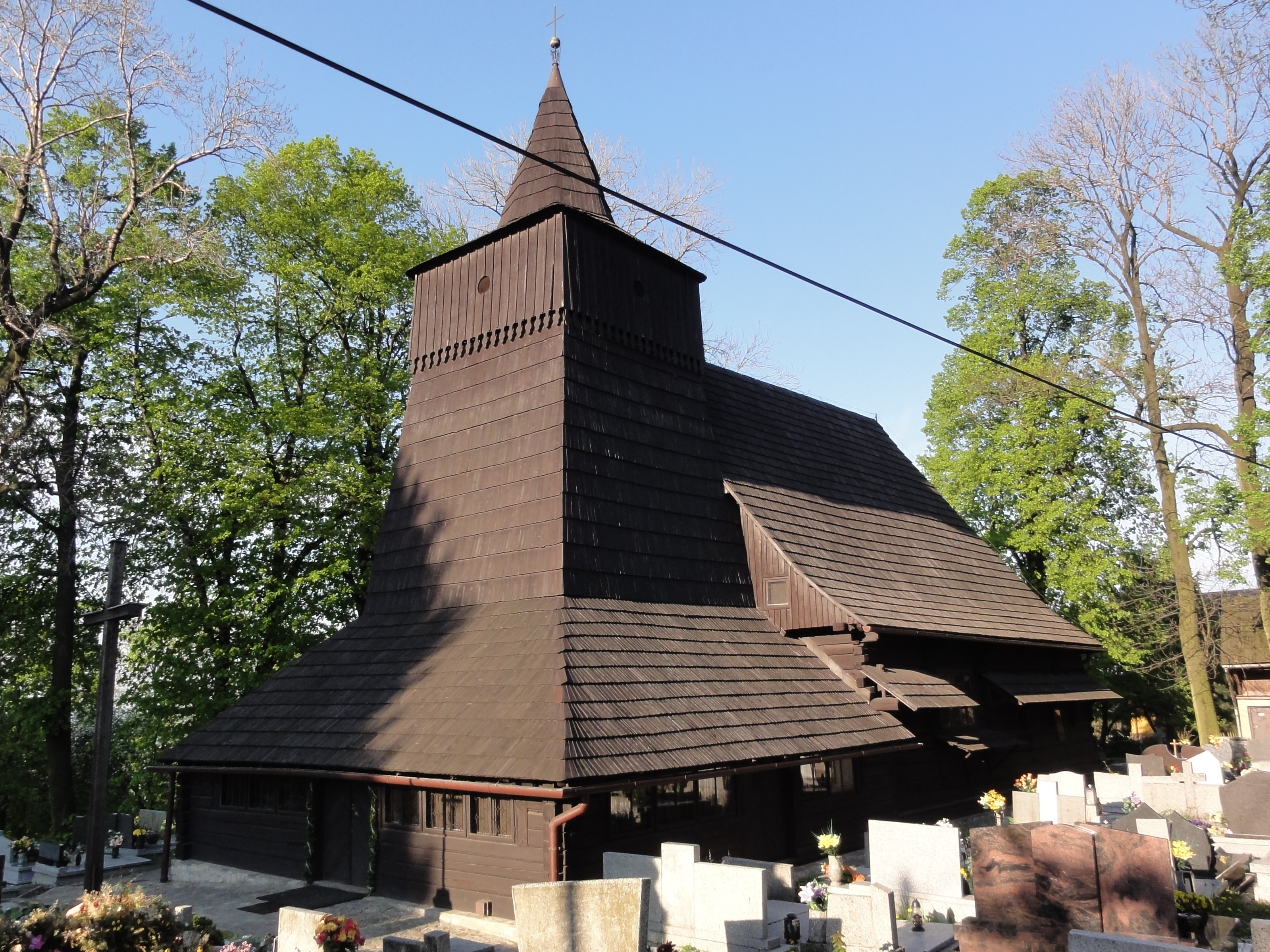 Church of Saint Roch in Zamarski